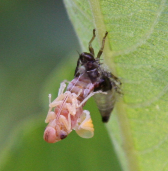 A froghopper moulting. No clue about the species; adults of several were present in the area.